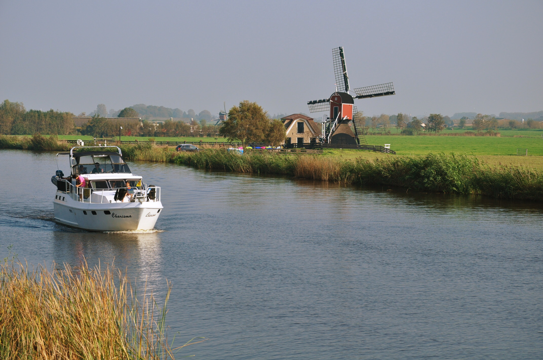 The river Does near Hoogmade (province of South-Holland, Netherlands), with the Doesmolen (Does windmill) in the Doespolder.